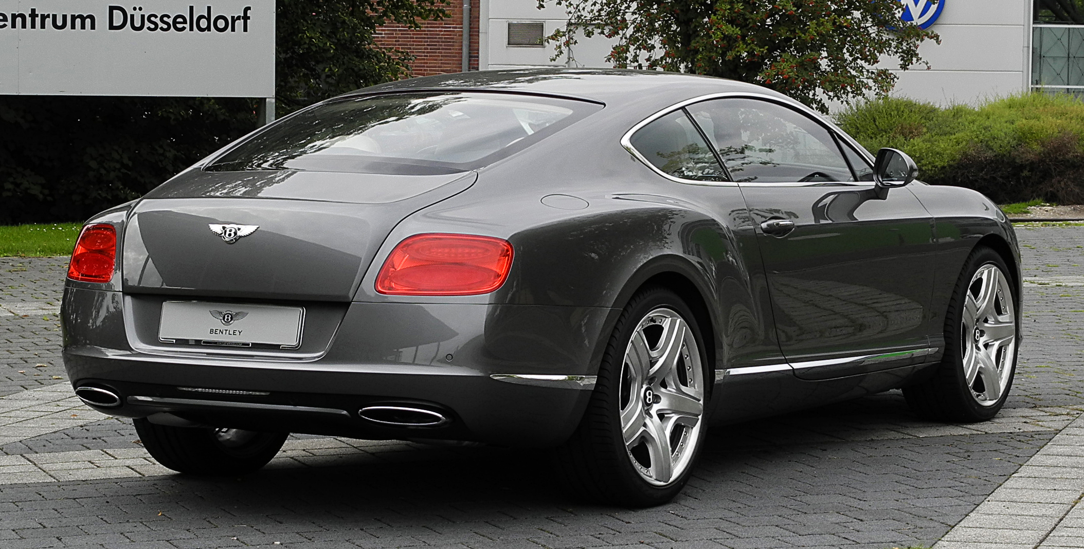 Bentley Continental GT (II)